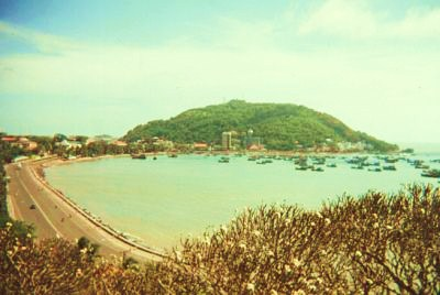 view on city of Vung Tau Vietnam